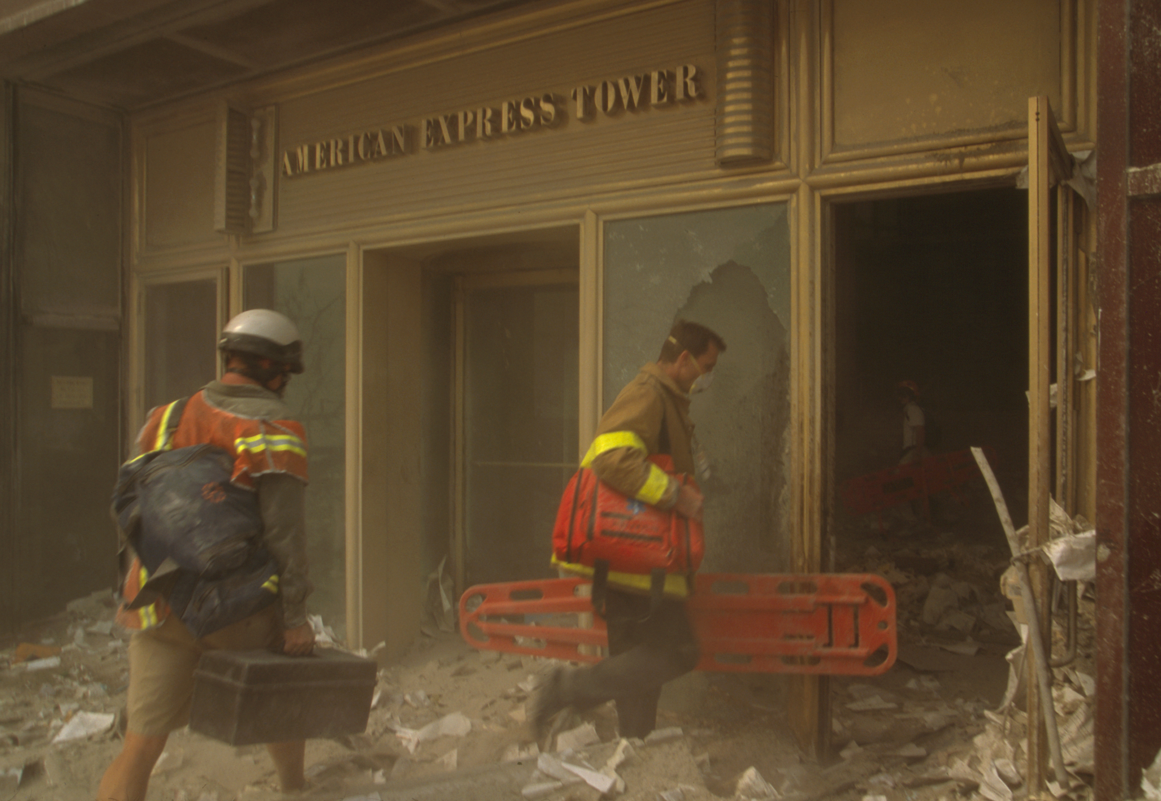 Two rescue workers entering the American Express Tower Three World Financial Center following September 11th terrorist attack on World Trade Center, New York City